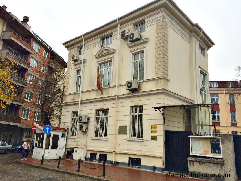 Spanish Embassy